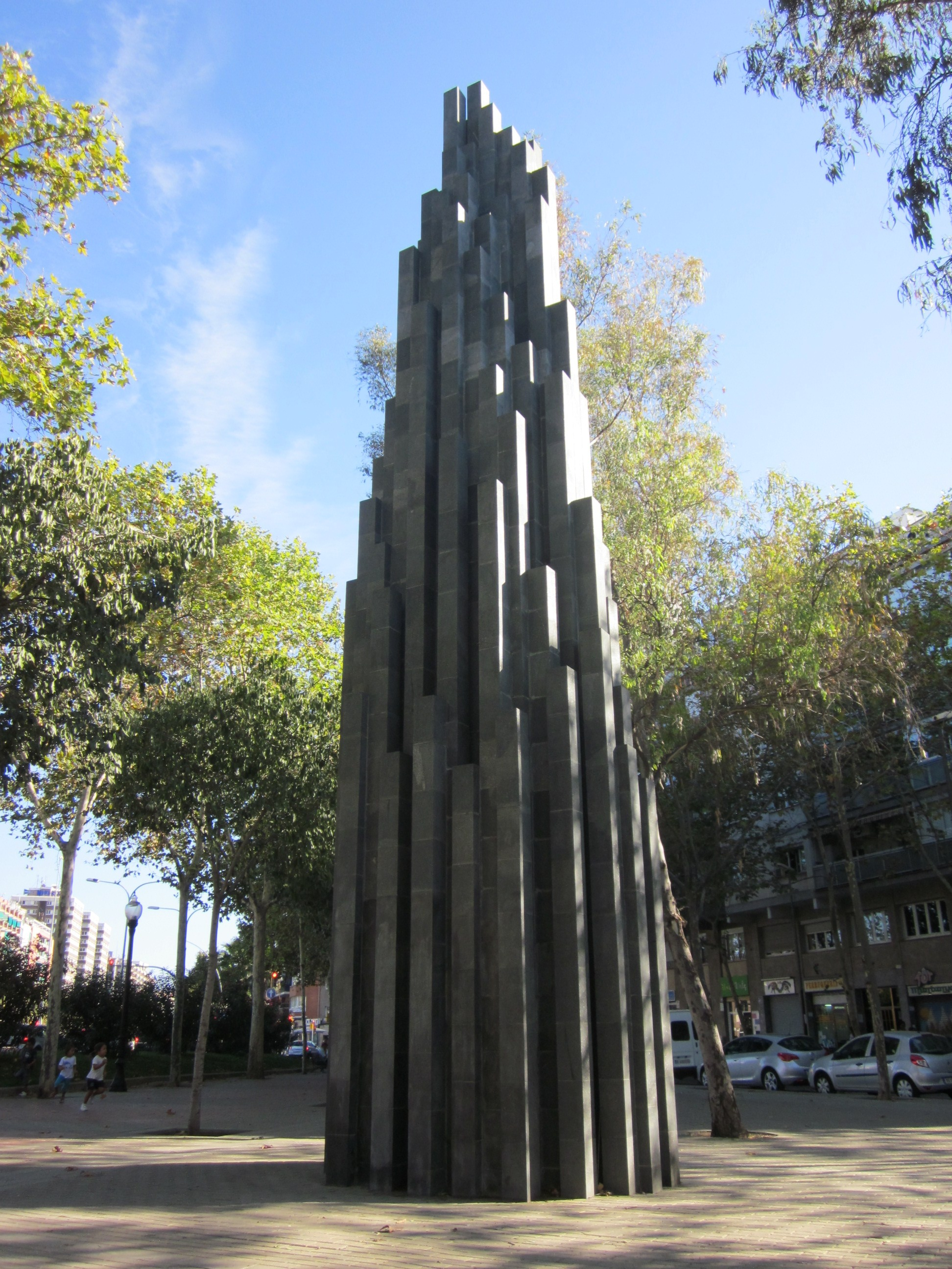 "Tall Irregular Progression" of Sol Lewitt. Monument in memory of terrorism victims. Year 2003. Located in Can Dragó park, Nou Barris, Barcelona.